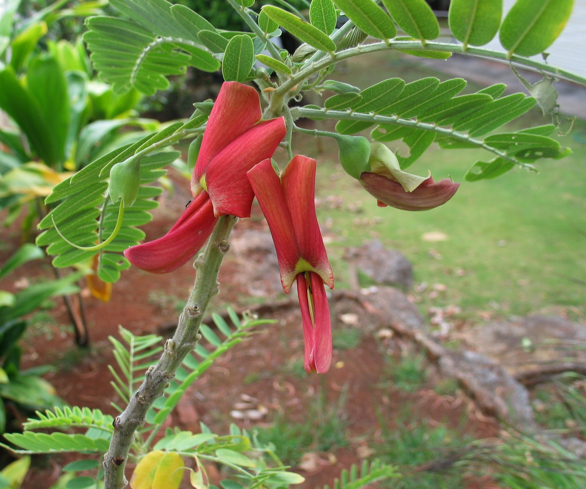 ʻOhai Fabaceae Endemic to the Hawaiian Islands Endangered Nīhoa from Oʻahu (Cultivated) NPH00002